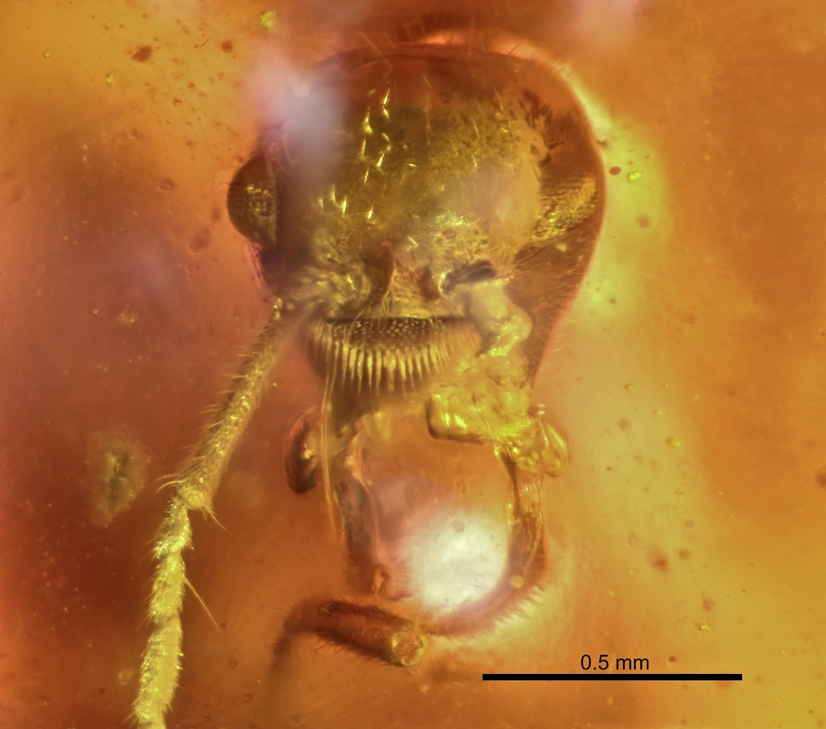 Closeup of the Haidomyrmex cerberus holotype head. specimen BMNHP20182